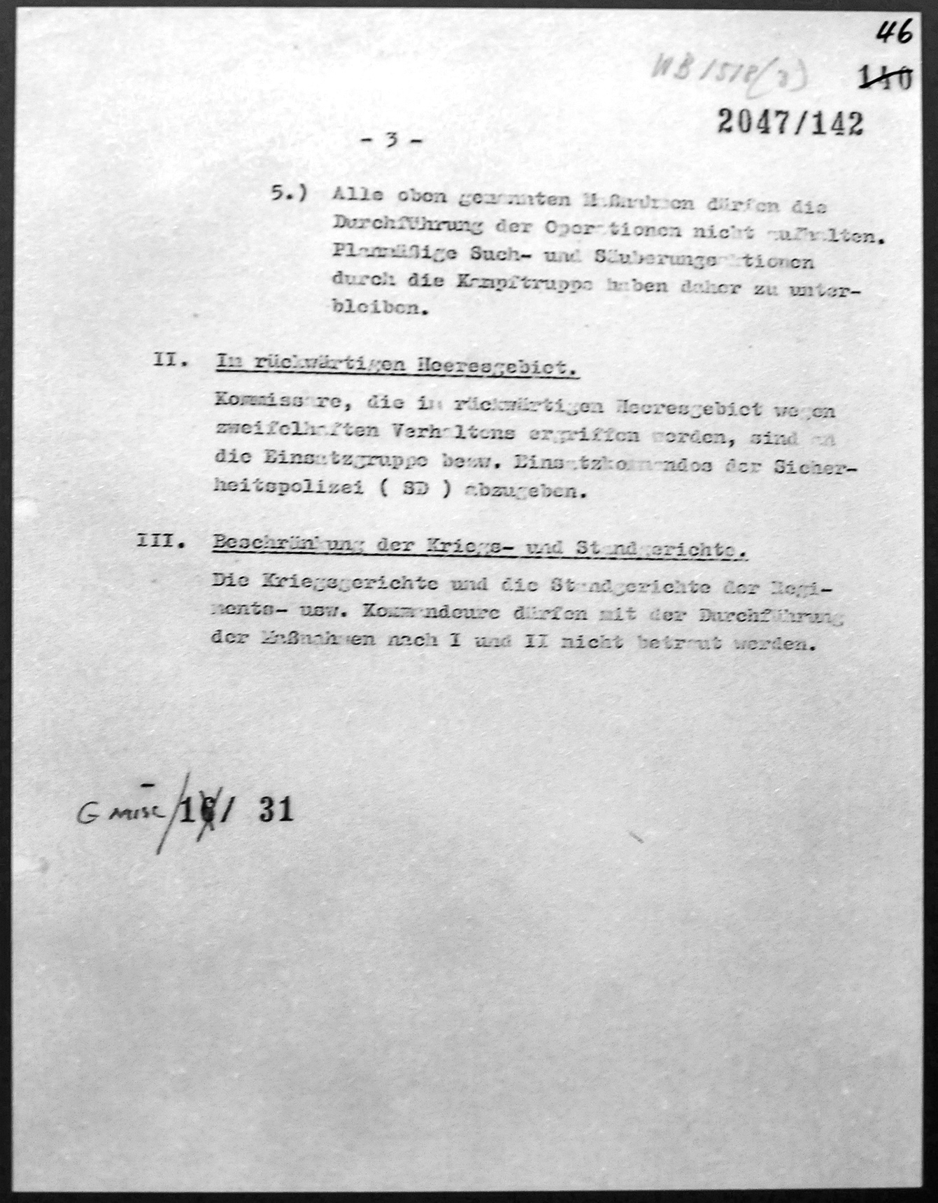 Kongreßhalle Nuremberg at the Reichsparteitagsgelände; Documents The making of this work was supported by Wikimedia Austria. For other files made with the support of Wikimedia Austria, please see the category Supported by Wikimedia Österreich. This file is ineligible for copyright and therefore in the public domain because it consists entirely of information that is common property and contains no original authorship.